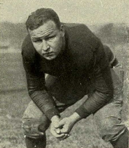 Photograph of Joe Gembis This work is in the public domain because it was published in the United States between 1923 and 1963 and although there may or may not have been a copyright notice, the copyright was not renewed. Unless its author has been dead for the required period, it is copyrighted in the countries or areas that do not apply the rule of the shorter term for US works, such as Canada (50 pma), Mainland China (50 pma, not Hong Kong or Macao), Germany (70 pma), Mexico (100 pma), Switzerland (70 pma), and other countries with individual treaties. See Commons:Hirtle chart for further explanation. This work is in the public domain because it was published in the United States between 1923 and 1977 and without a copyright notice. Unless its author has been dead for several years, it is copyrighted in jurisdictions that do not apply the rule of the shorter term for US works, such as Canada (50 p.m.a.), Mainland China (50 p.m.a., not Hong Kong or Macao), Germany (70 p.m.a.), Mexico (100 p.m.a.), Switzerland (70 p.m.a.), and other countries with individual treaties. See this page for further explanation.